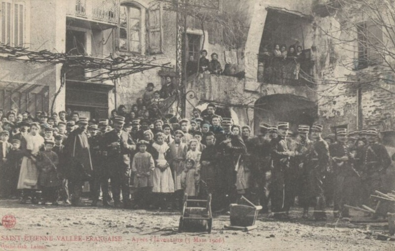 old postcard of saint-étienne-vallée-française (lozère)- demonstration against catholic church's inventory